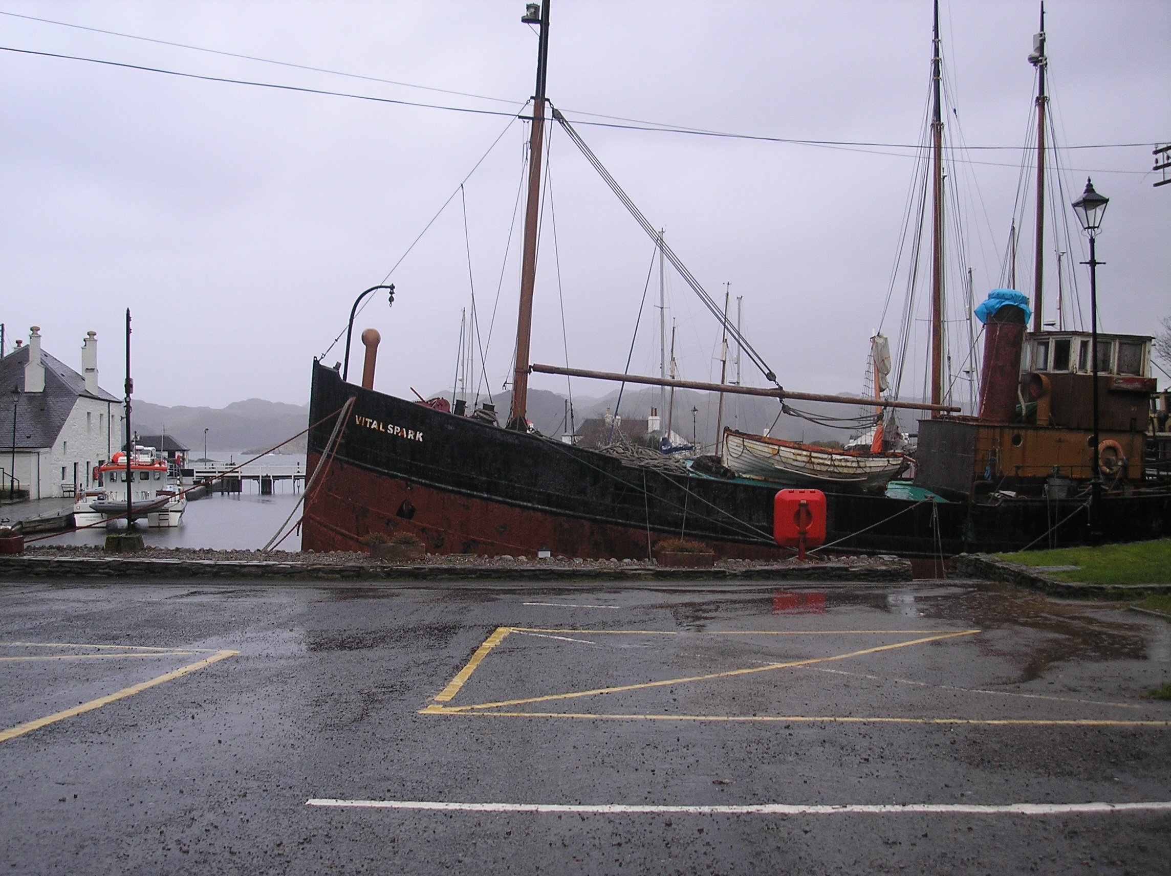 Photograph of the Clyde puffer Eilean Eisdeal (VIC72) rigged out as the Vital Spark at Crinan, Argyll and Bute by HisSpaceResearch